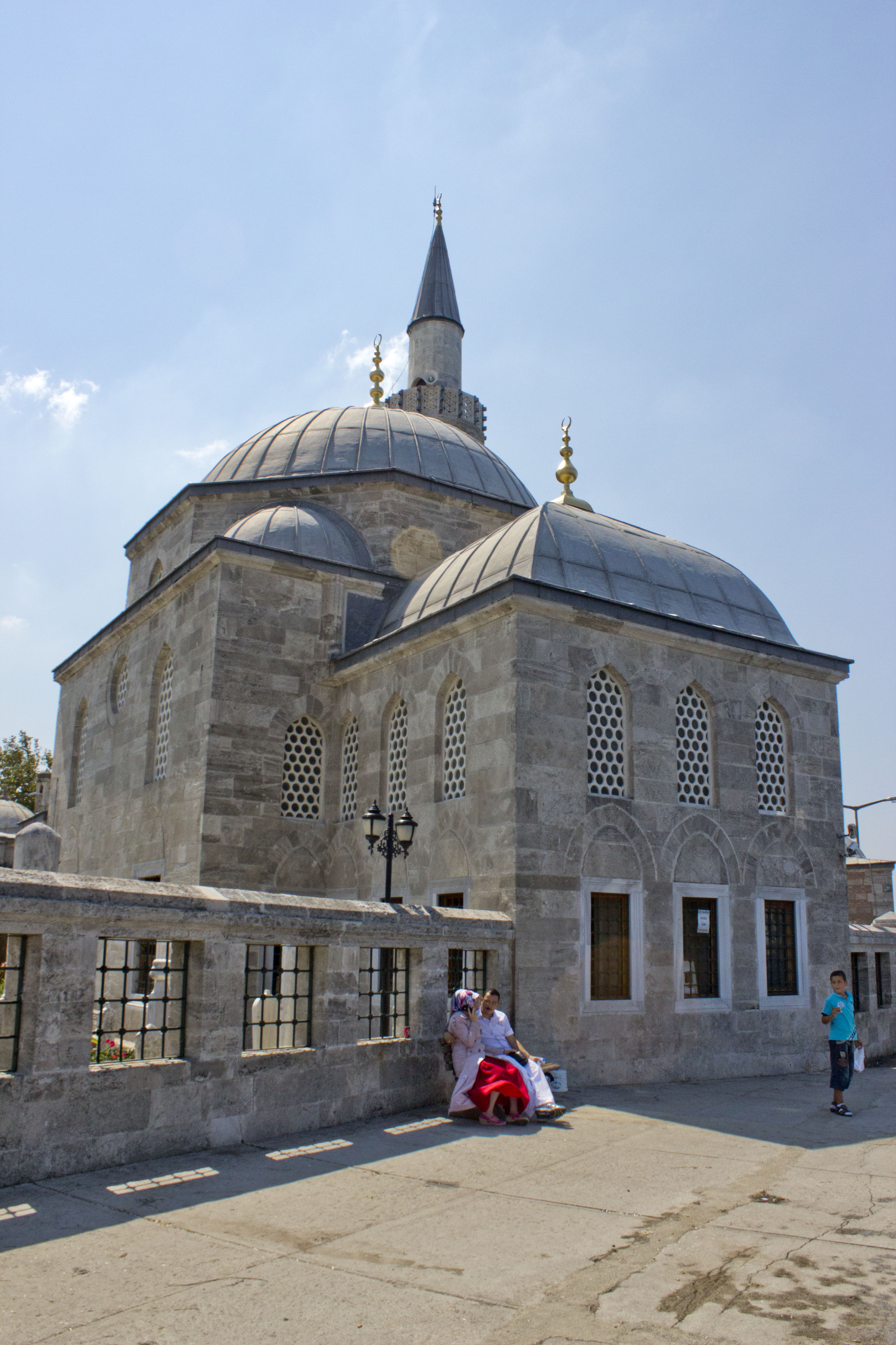 View of Şemsi Pasha Mosque in Üsküdar